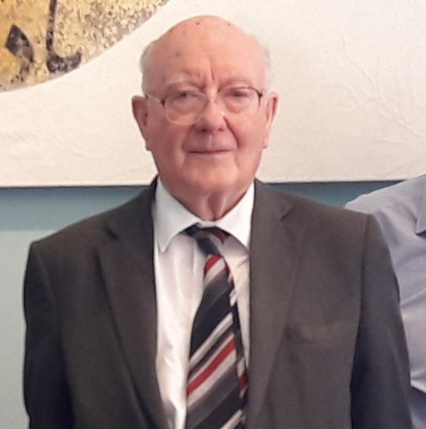 Treasure Valuation Committee. Membership includes: Colin Renfrew, Gail Boyle, Marian Campbell, Roger Bland, Chris Martin, Hetty Gleave, Harry Bain, Jim Brown